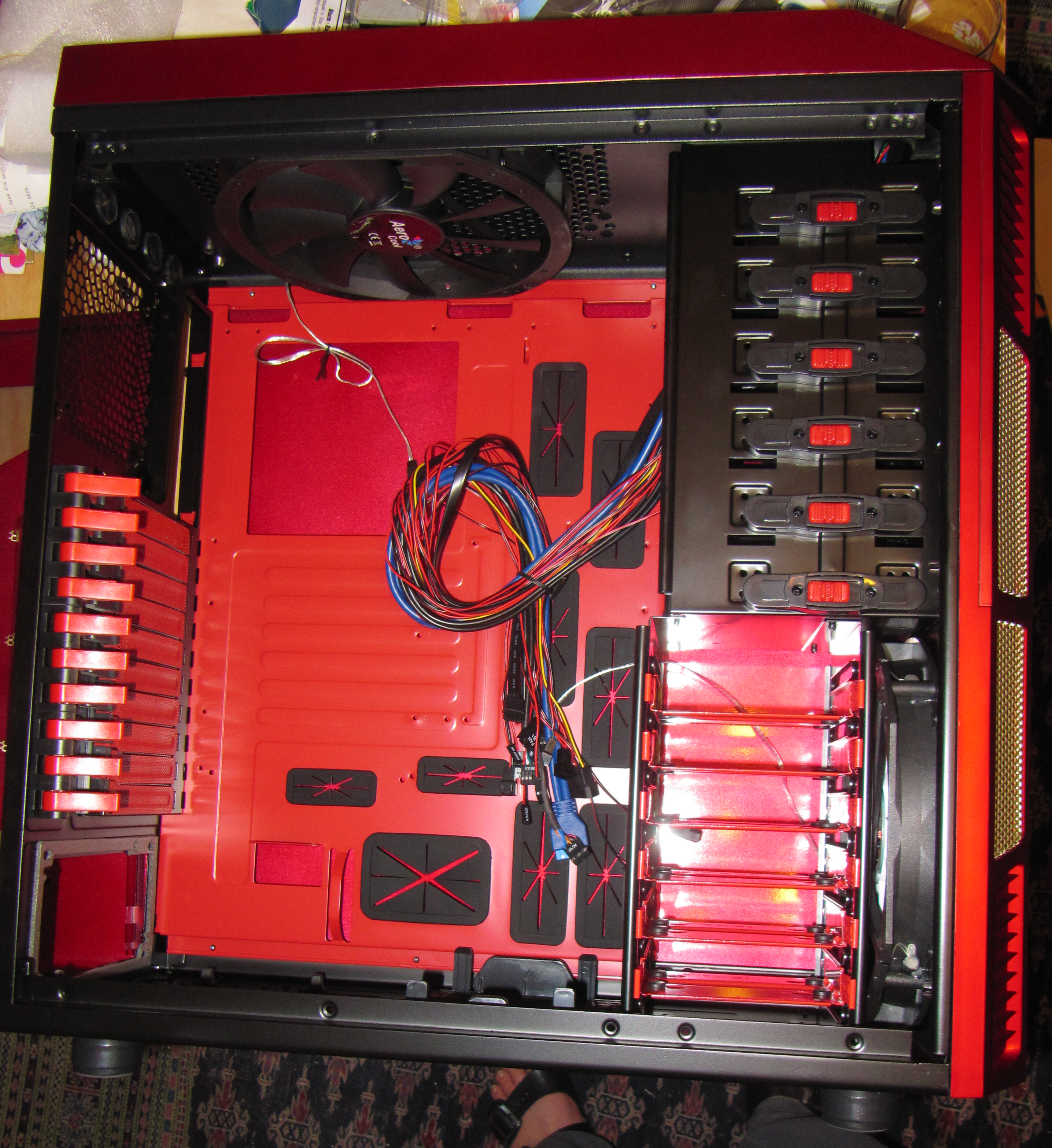 The Aerocool XPredator Avenger full tower gaming case. Without the windowed side panel. Supports Motherboards up to E-ATX/SSI EEB and XL-ATX.For further information see manufacturer's website.[1]